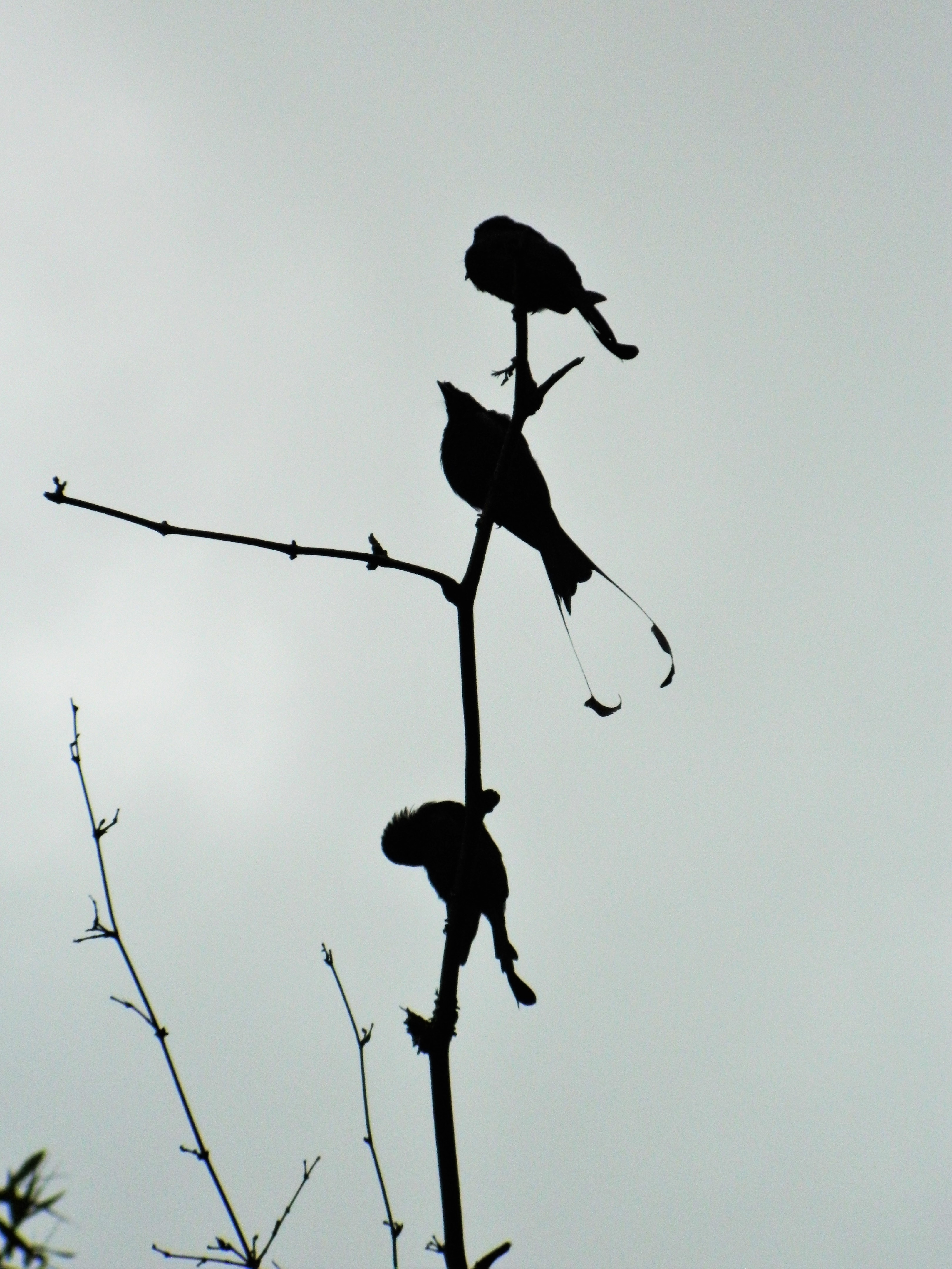 Greater Racket-tailed Drongo Dicrurus paradiseus are found in plenty in the Periyar National Park and Wildlife Sanctuary, Kerala